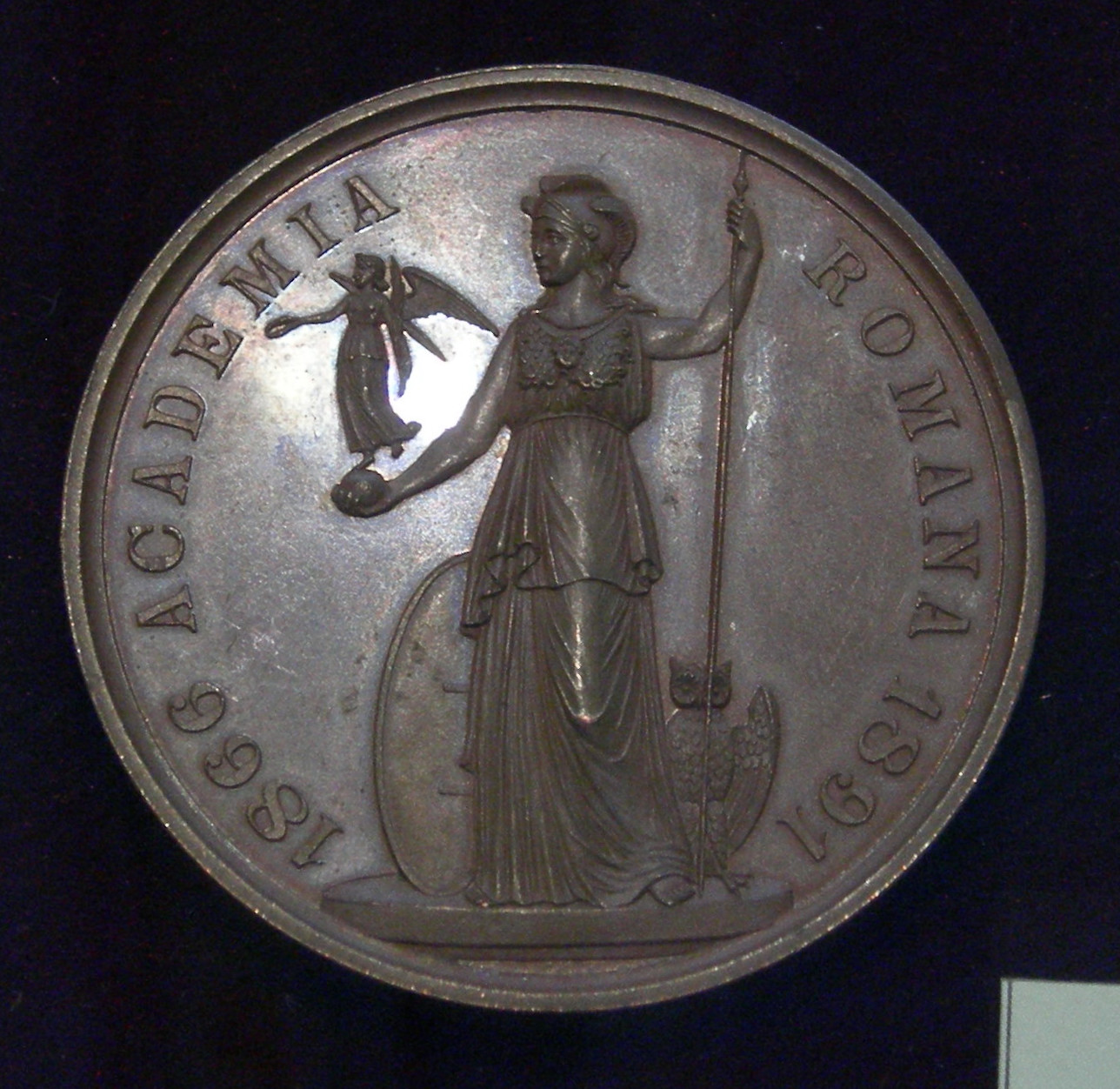 Medal for the 25th anniversary of the Romanian Academy (1866–1891)